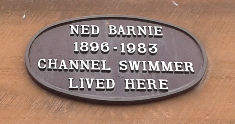 1896 - 1983 channel swimmer lived here.